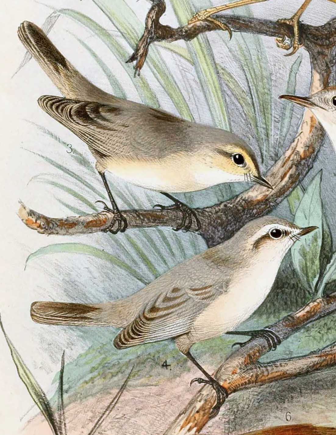 « Lusciniola (Herbivocula) neglecta » = Phylloscopus neglectus (Plain Leaf Warbler) - females